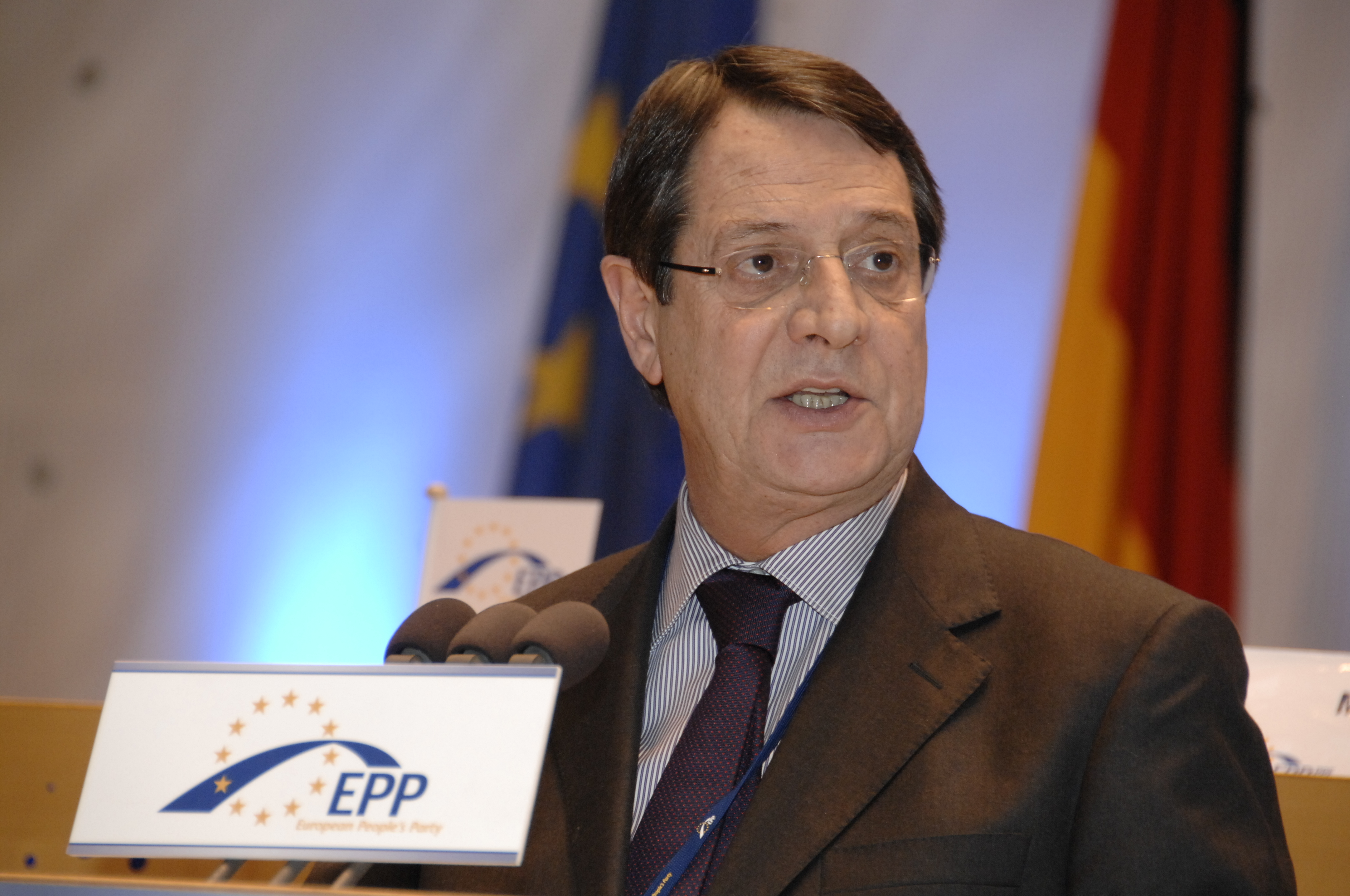 EPP Congress Bonn